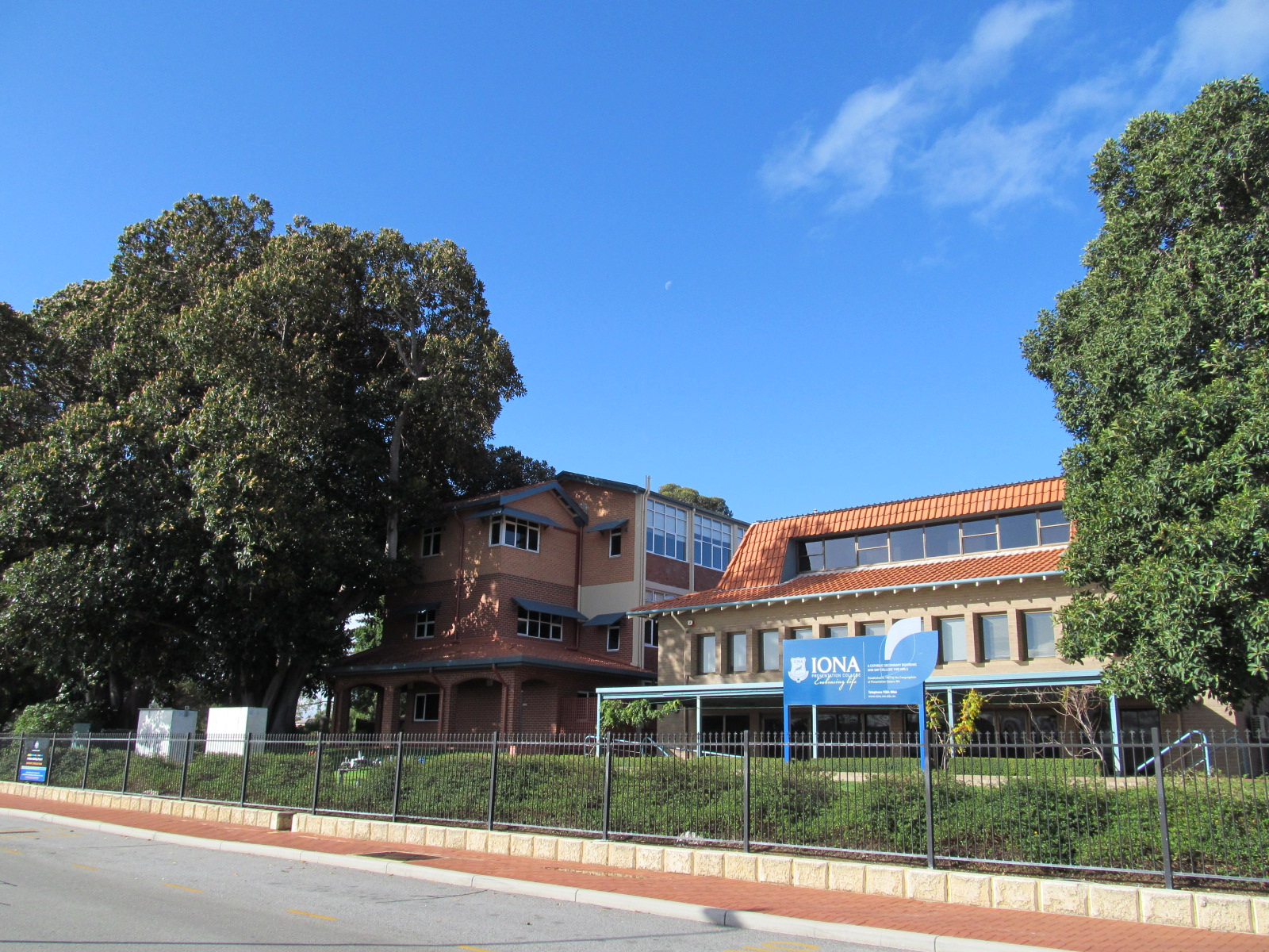 Front of Iona Presentation College, Mosman Park, Perth, Western Australia.